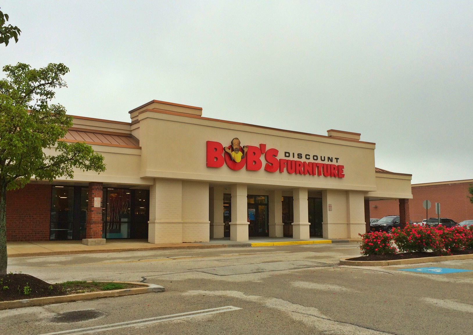 Bob's Discount Furniture store near Philadelphia, PA